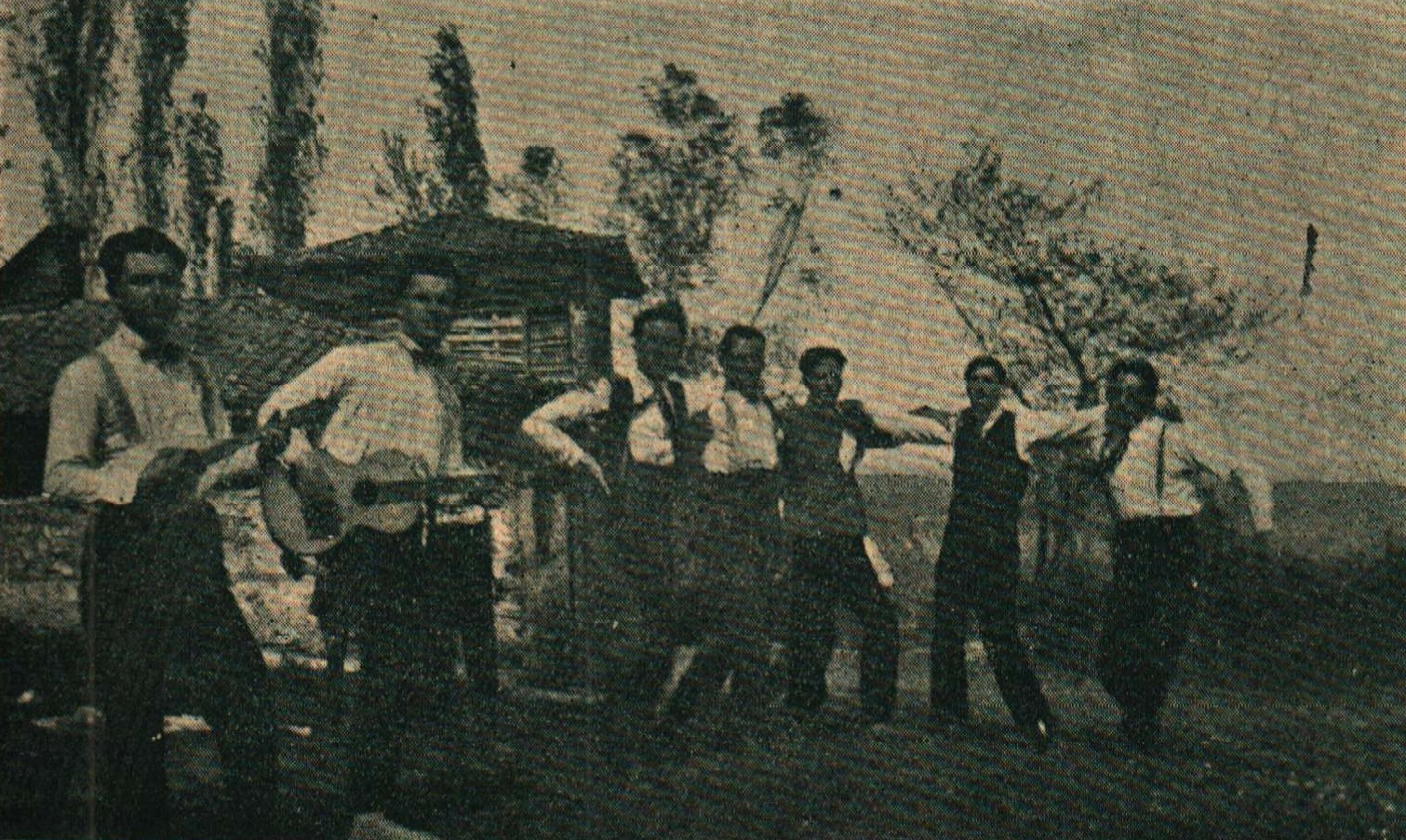 Picture from Boymitsa (today Axioupoli) from "Ilustratsia Ilinden", book 6, 1932.